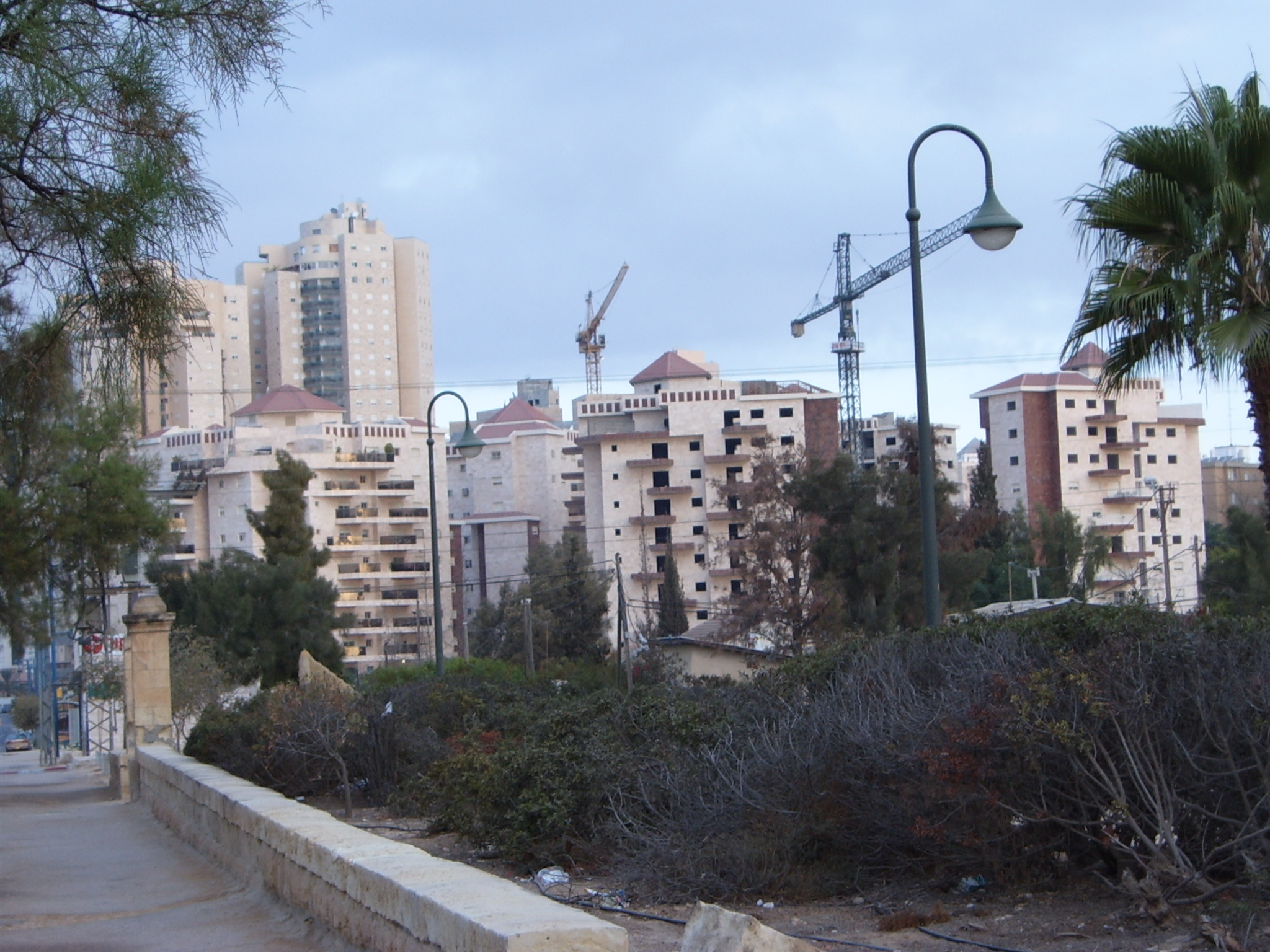 Construction in Beer Sheba